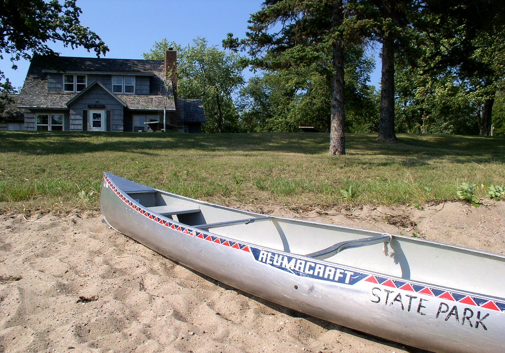 The trail center on the shore of Annie Battle Lake in Glendalough State Park, Minnesota.